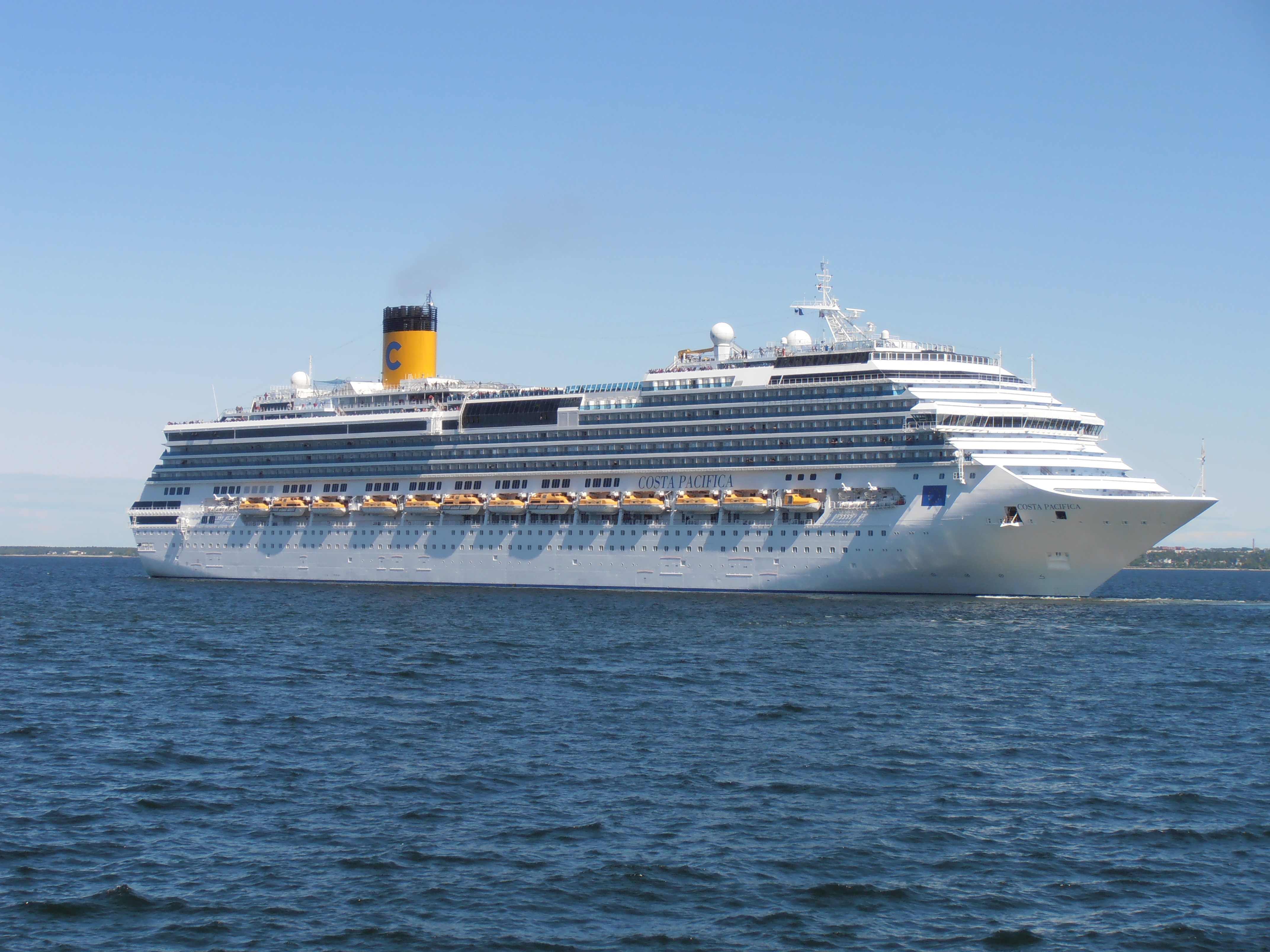 Costa Pacifica departing Port of Tallinn 29 May 2012